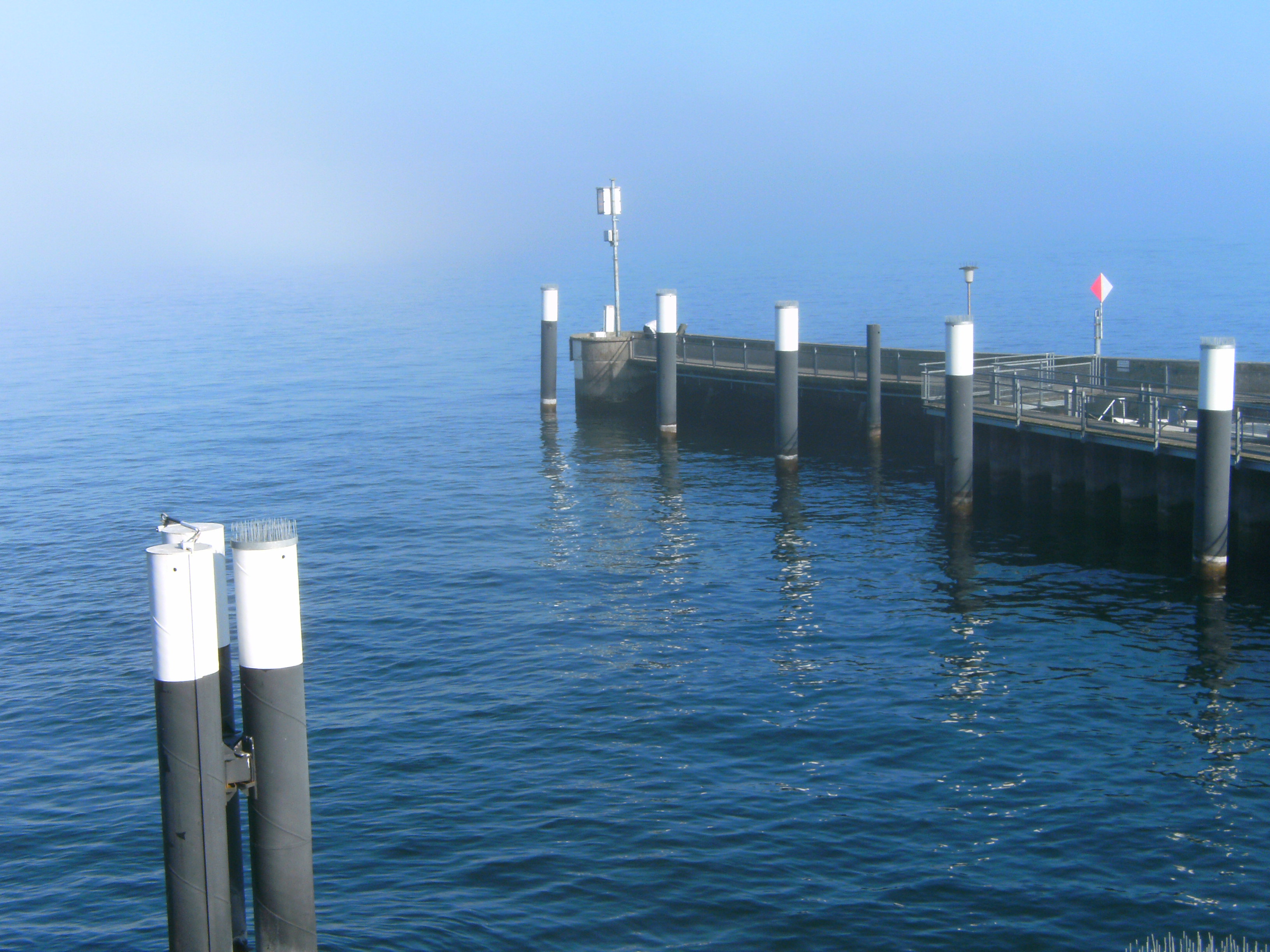 Ferry harbour Konstanz-Staad: inner part.